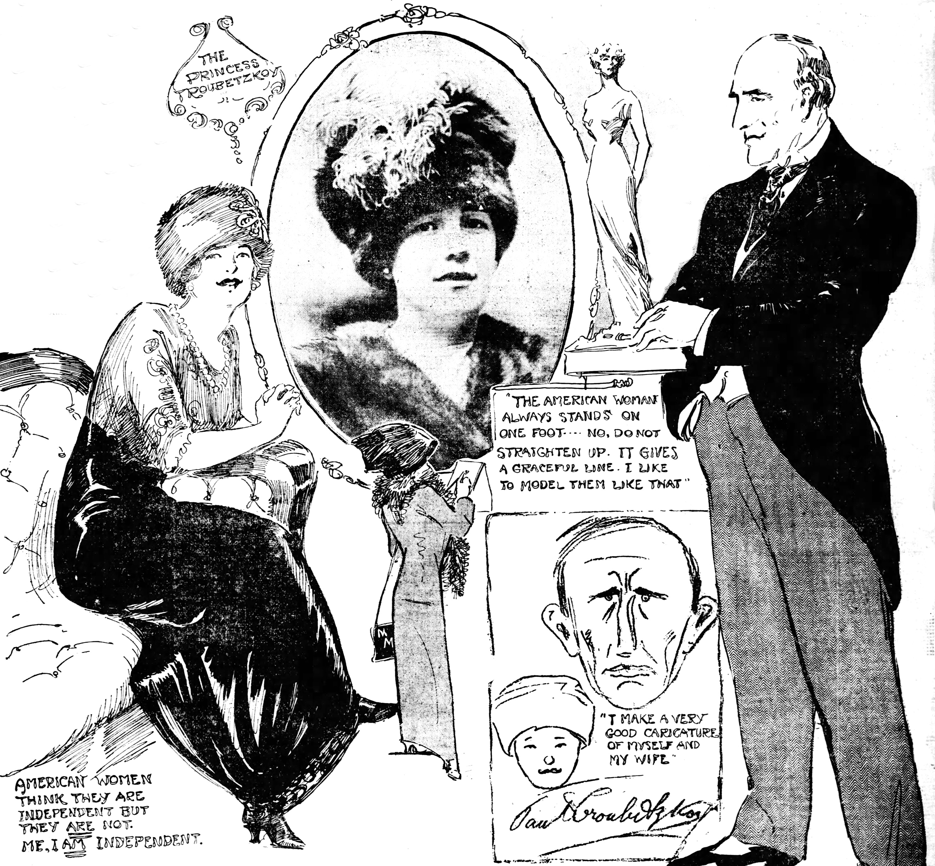 Portion of St. Louis Post-Dispatch newspaper page dated March 17, 1912, illustrating visit of Paul Troubetskoy and his wife, Ellen Sundstrom, to St. Louis, Missouri. Central figure is reporter Marguerite Martyn, who did the principal sketches. There is also a caricature at the bottom done by Troubetskoy of him and his wife, with his signature. The file also contains quotations as taken down by Martyn.